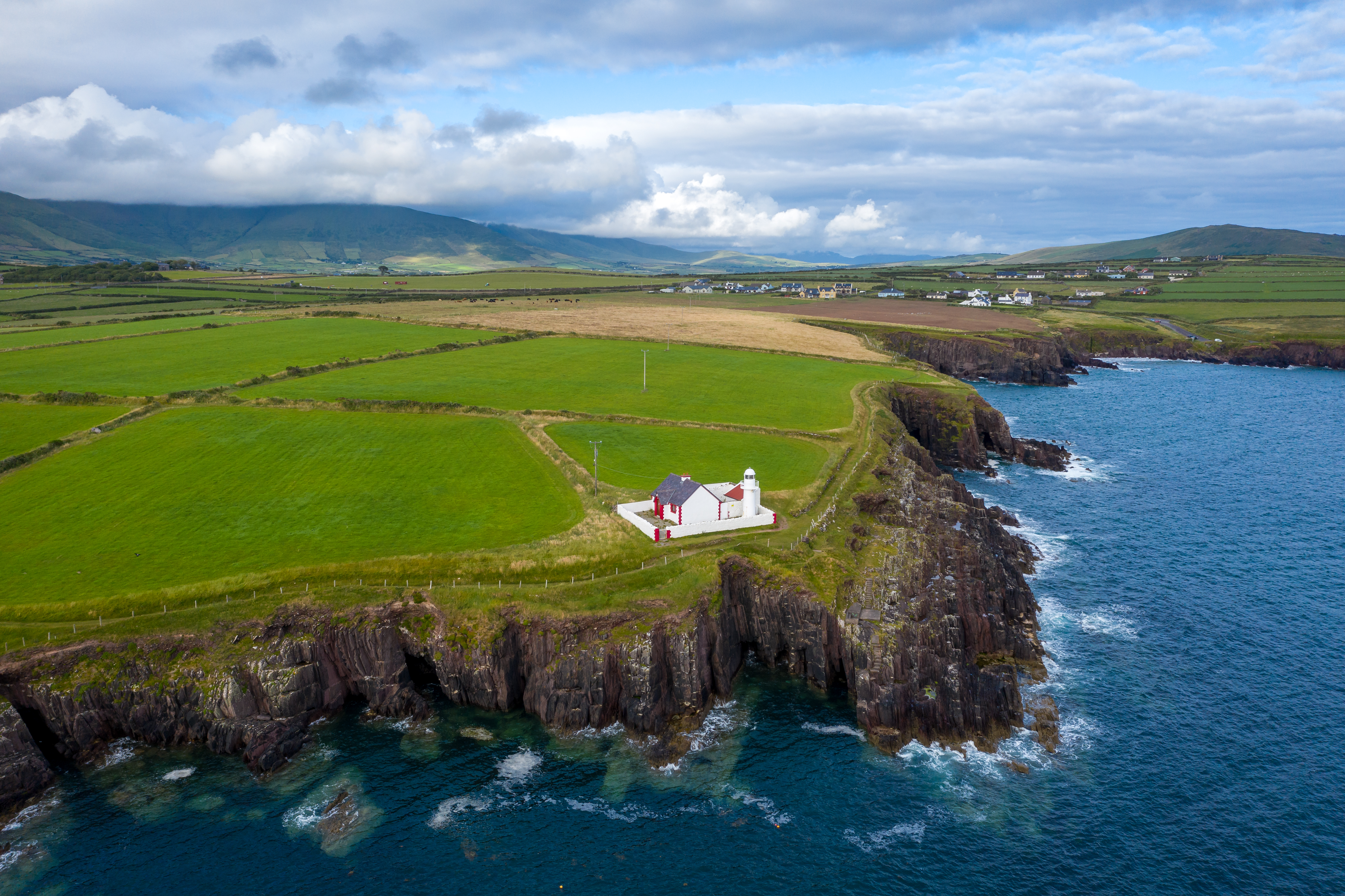 Dingle Lighthouse, at the entrance of Dingle Bay